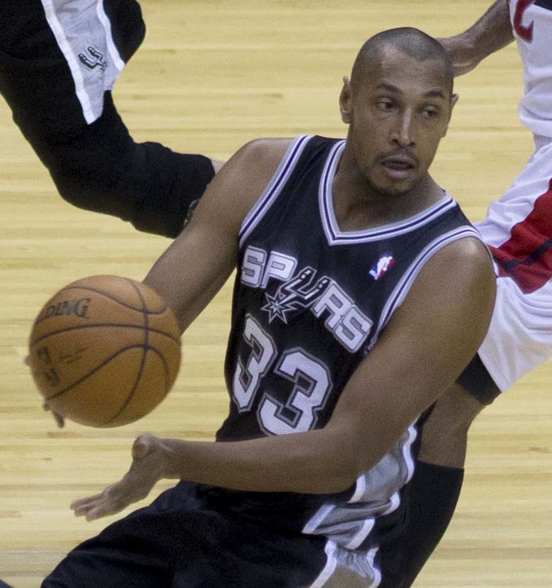 Boris Diaw